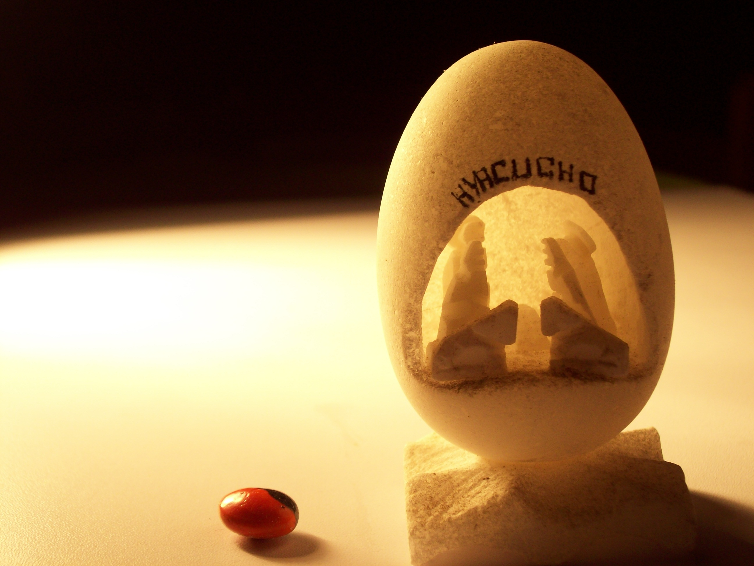 Ayacucho